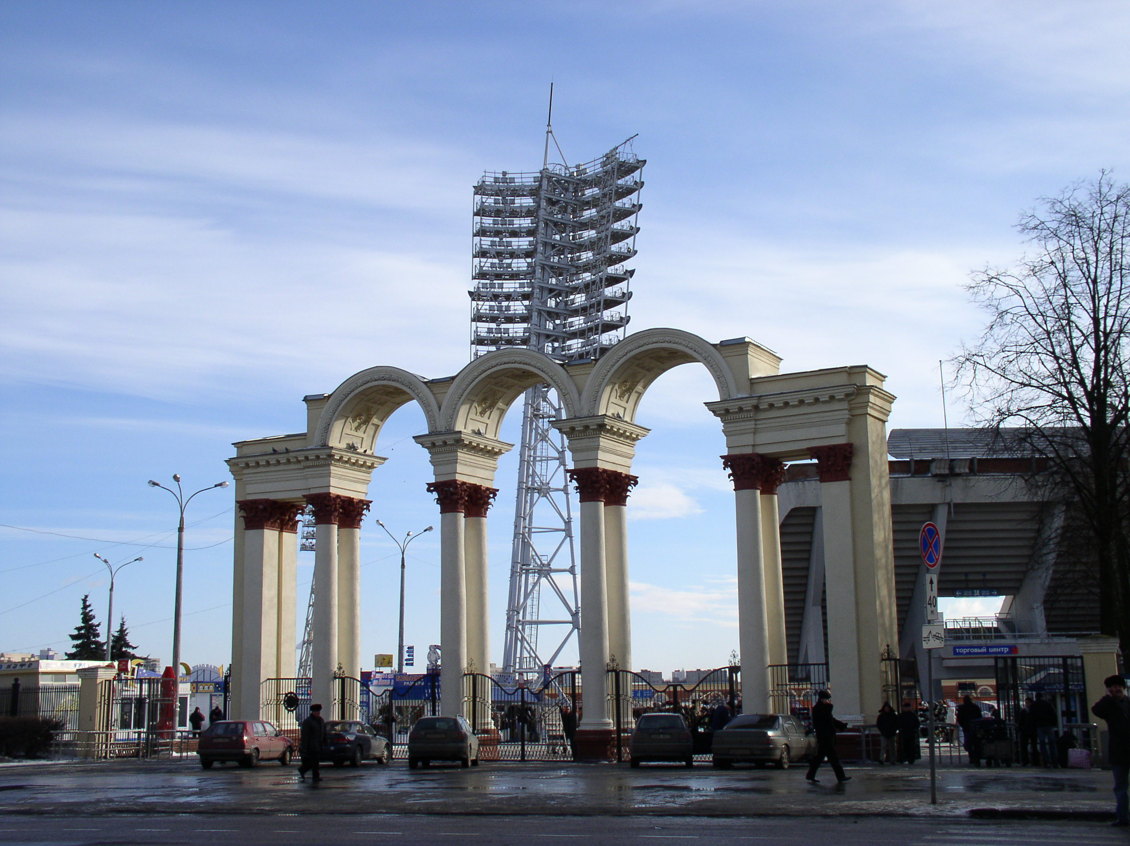 Entrance into "Dynamo" stadium. Minsk, Belarus.